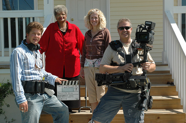 On set of PSA making